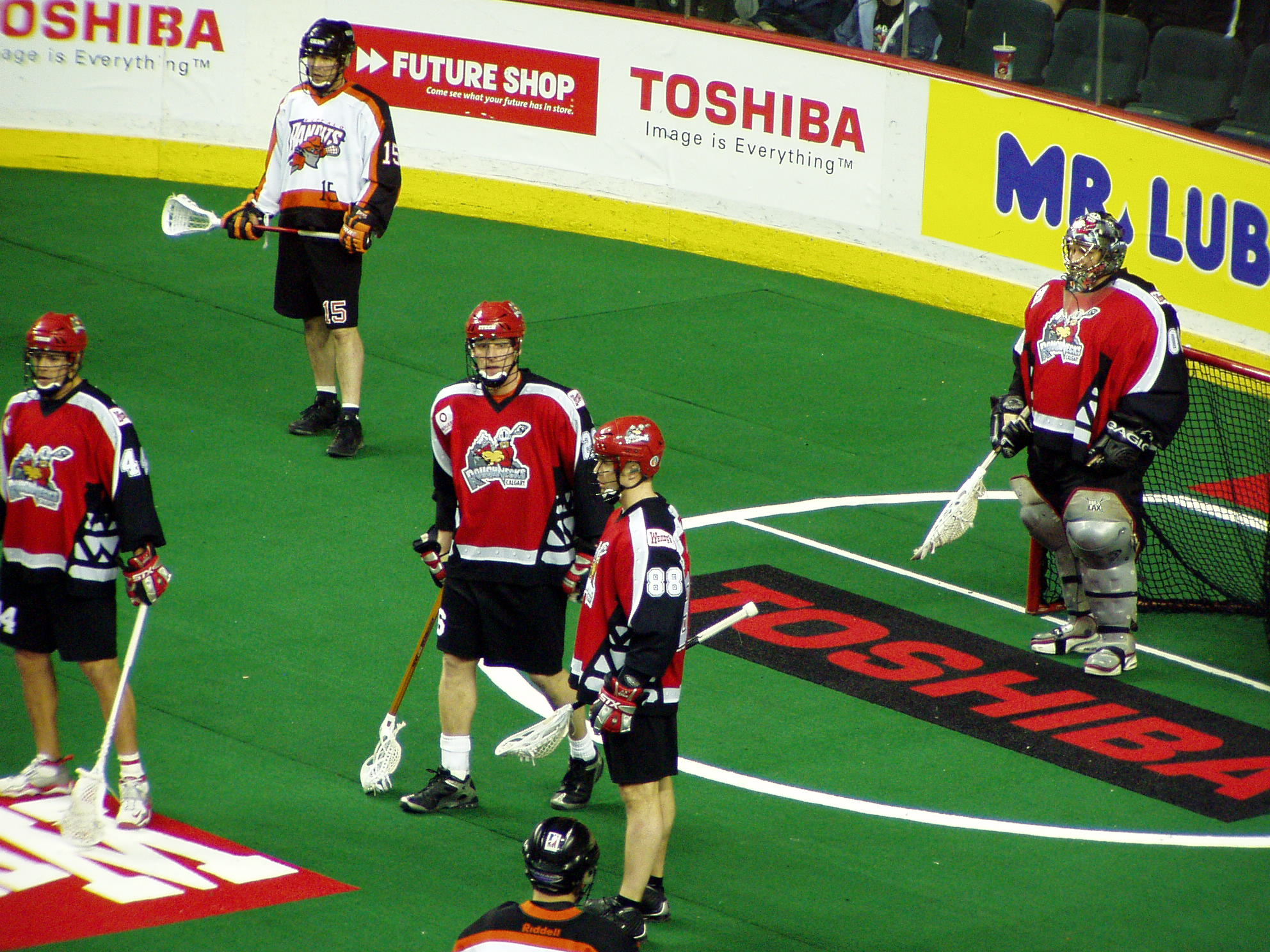 Calgary Roughnecks at the Pengrowth Saddledome, April 9, 2005. This is a National Lacrosse League (NLL) match.